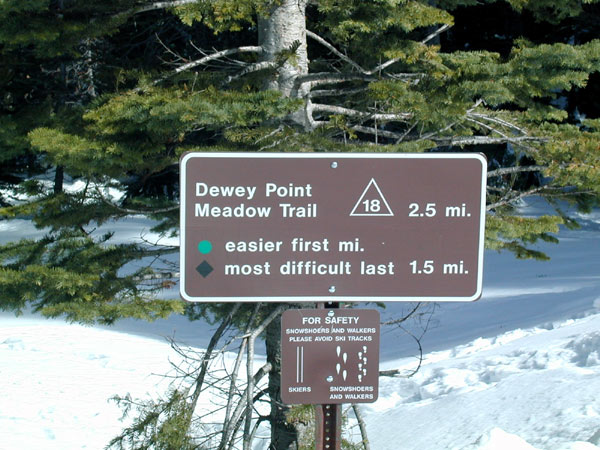 Yosemite cross-country trail marker on cross-county skiing trip to Dewey point.